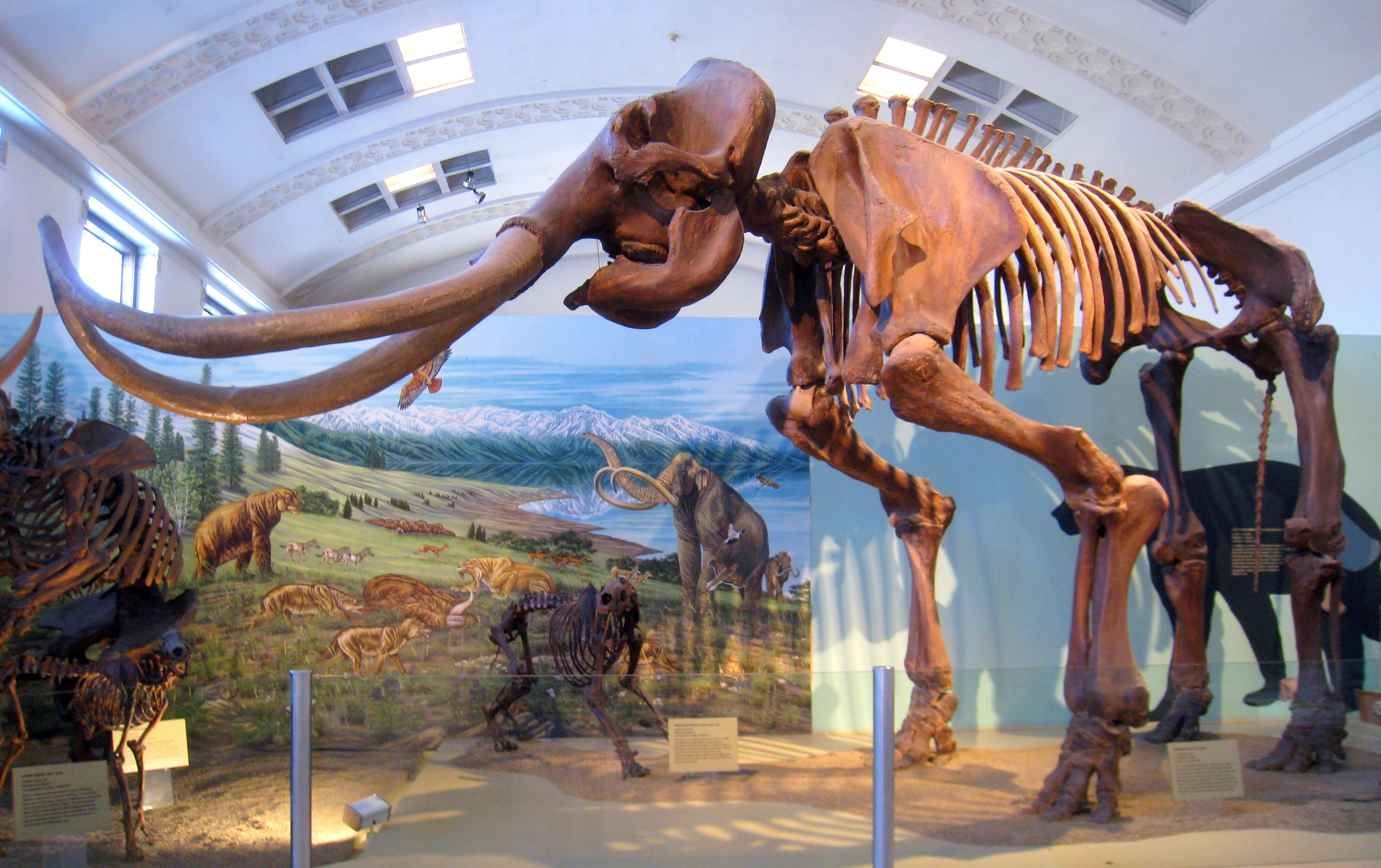 Cast of the "Huntington mammoth" Columbian mammoth, Utah Museum of Natural History, Salt Lake City, Utah, USA.